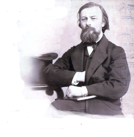 Photograph of Nicolai Zaremba, made in 1859 by unknown photographer